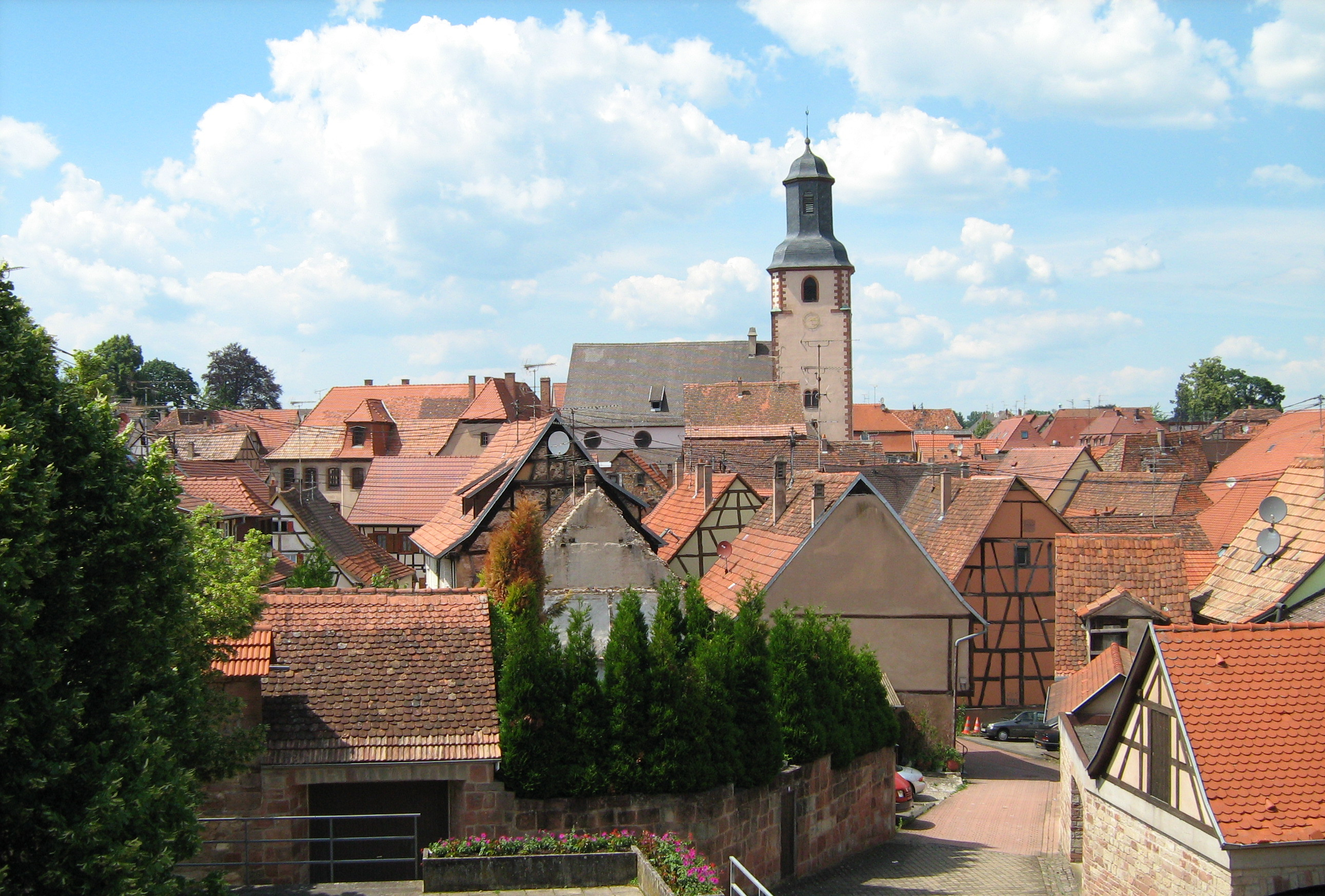 view of Bouxwiller